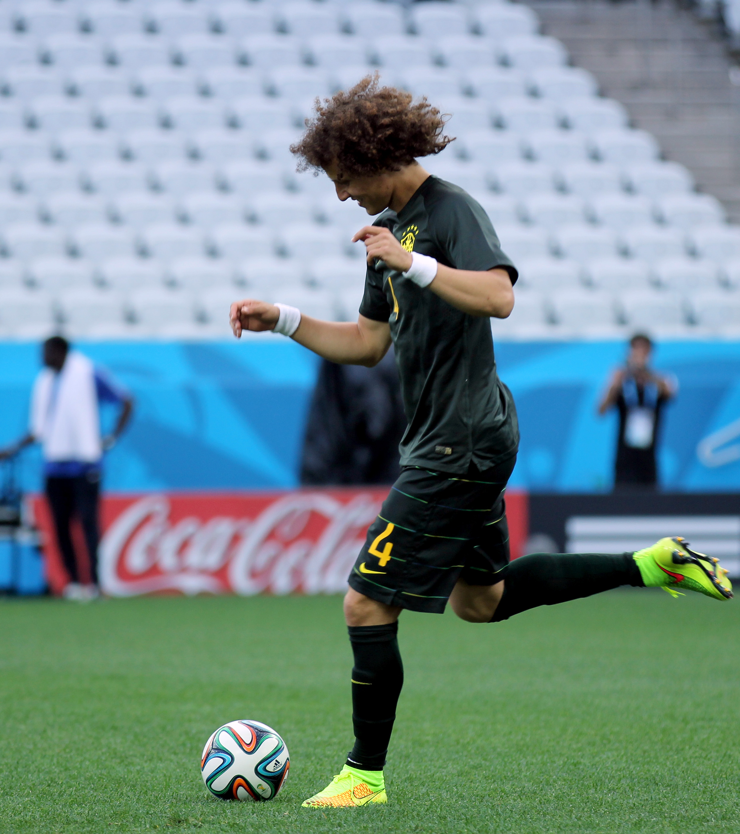 Brazil national team training for 1 day before the start of the first game of the 2014 World Cup qualifier against Croatia 2014-06-11